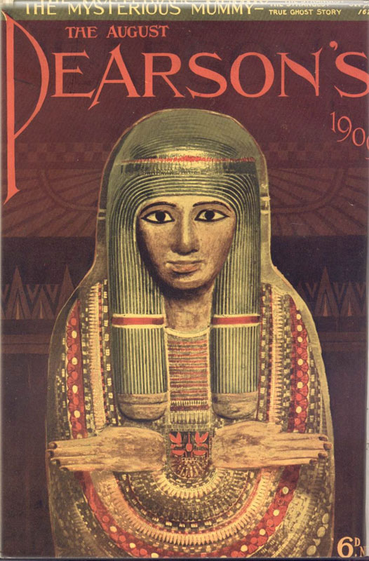 Cover of 1909 Pearson's Magazine featuring the story of the Unlucky Mummy (British Museum ref AE 22542).